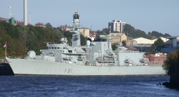 HMS Sutherland at Newcastle upon Tyne, September 2004.